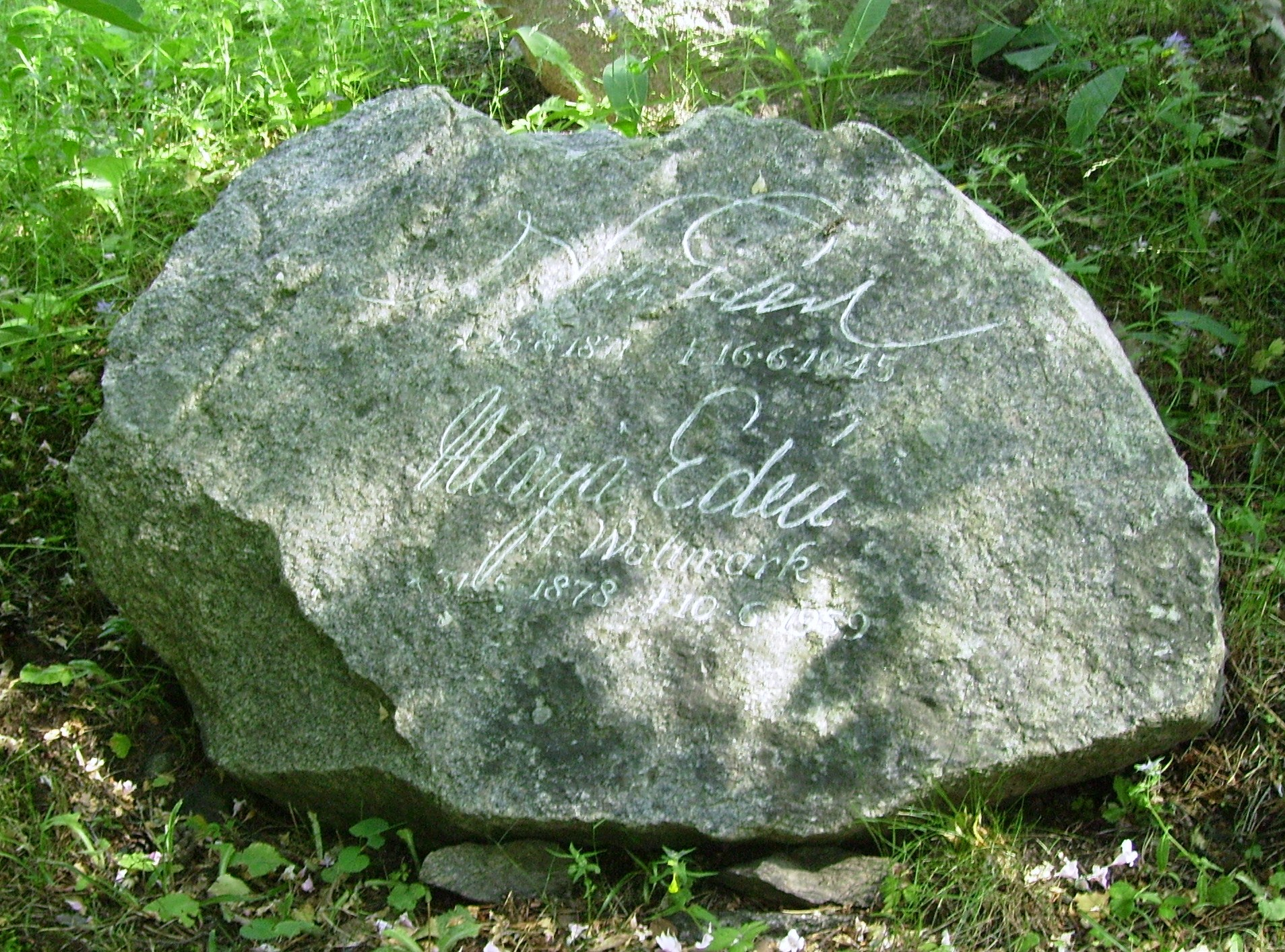 Picture of Nils Edén's grave at Djursholms cemetary